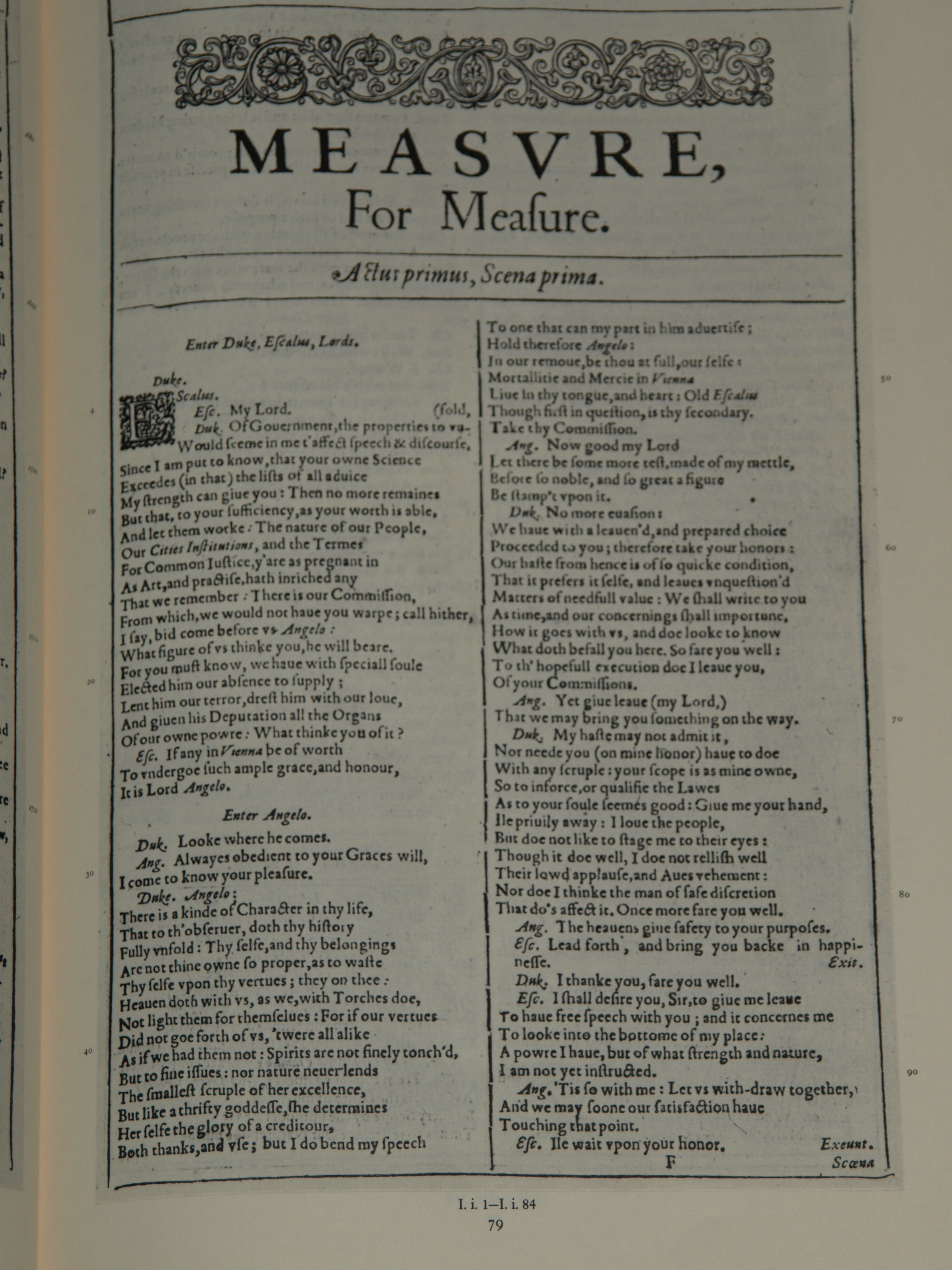 Photo of the first page of Measure for Measure from a facsimile edition of the First Folio of Shakespeare's plays, published in 1623